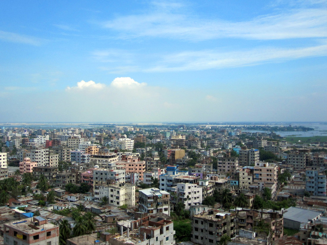 Photo by Mona Mijthab, July 2011